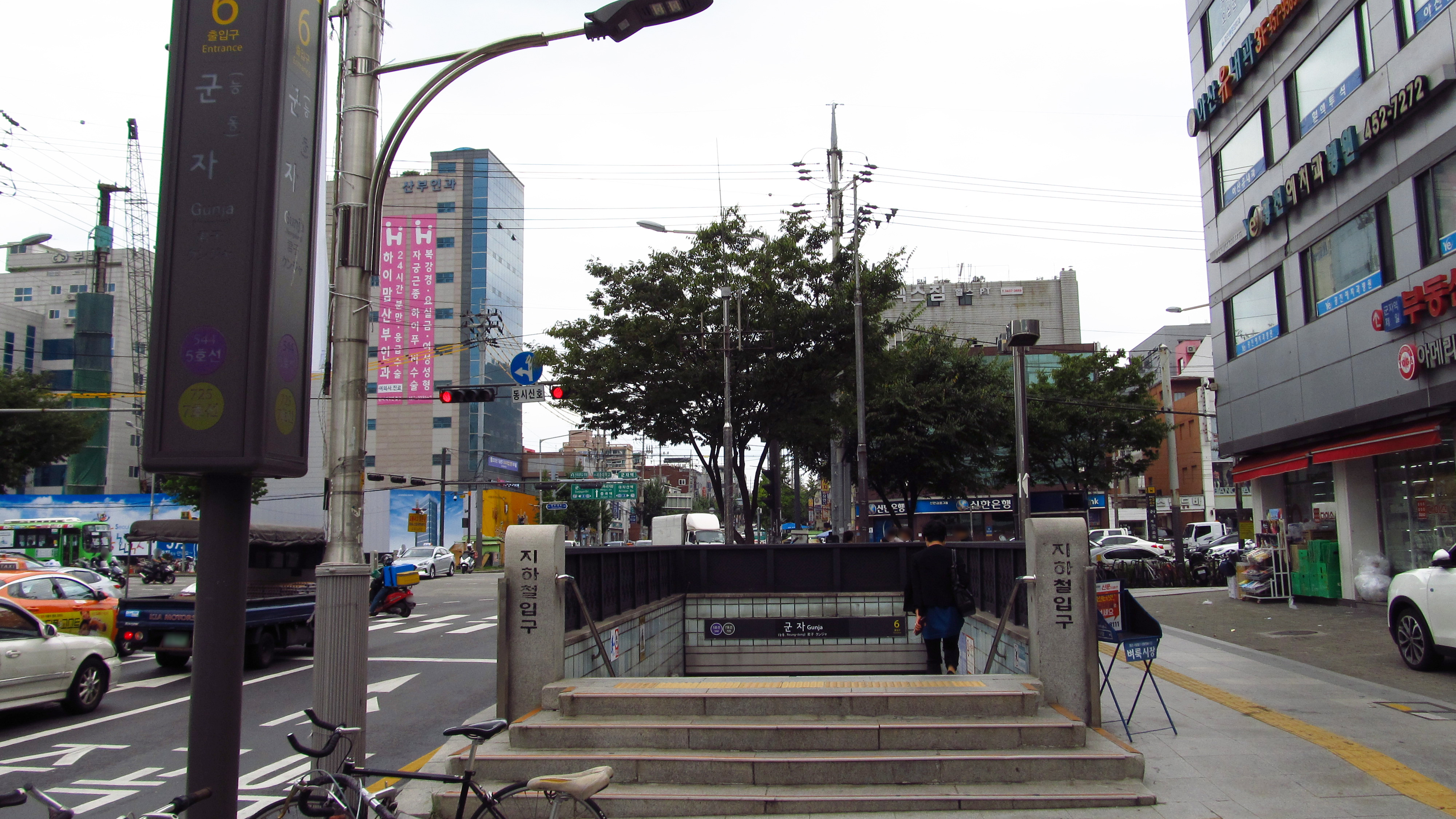 The no.6 entrance to Gunja Station on the Seoul Metro Line 5, Line 7 in Gwangjin-gu, Seoul, Republic of Korea(South Korea)